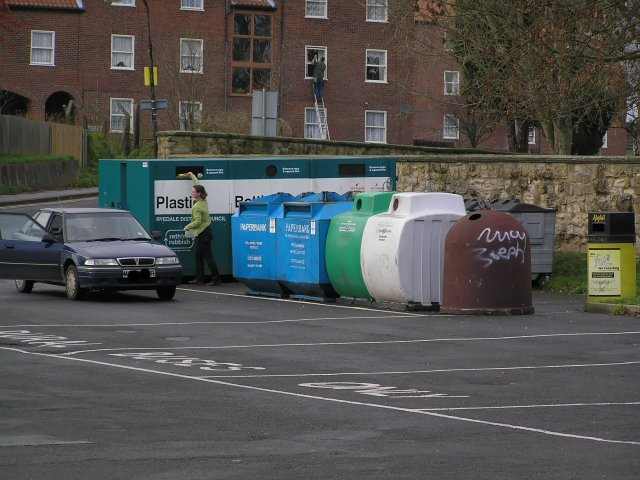 Recycling bins Wentworth Street car park.